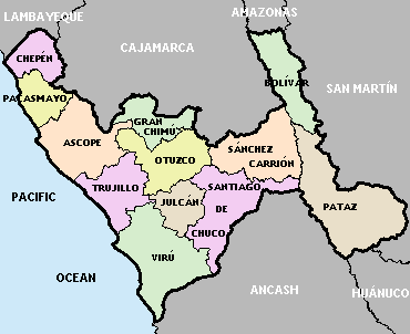 Map of La Libertad region showing its provinces Created by User:StarbucksFreak - Mar. 2005